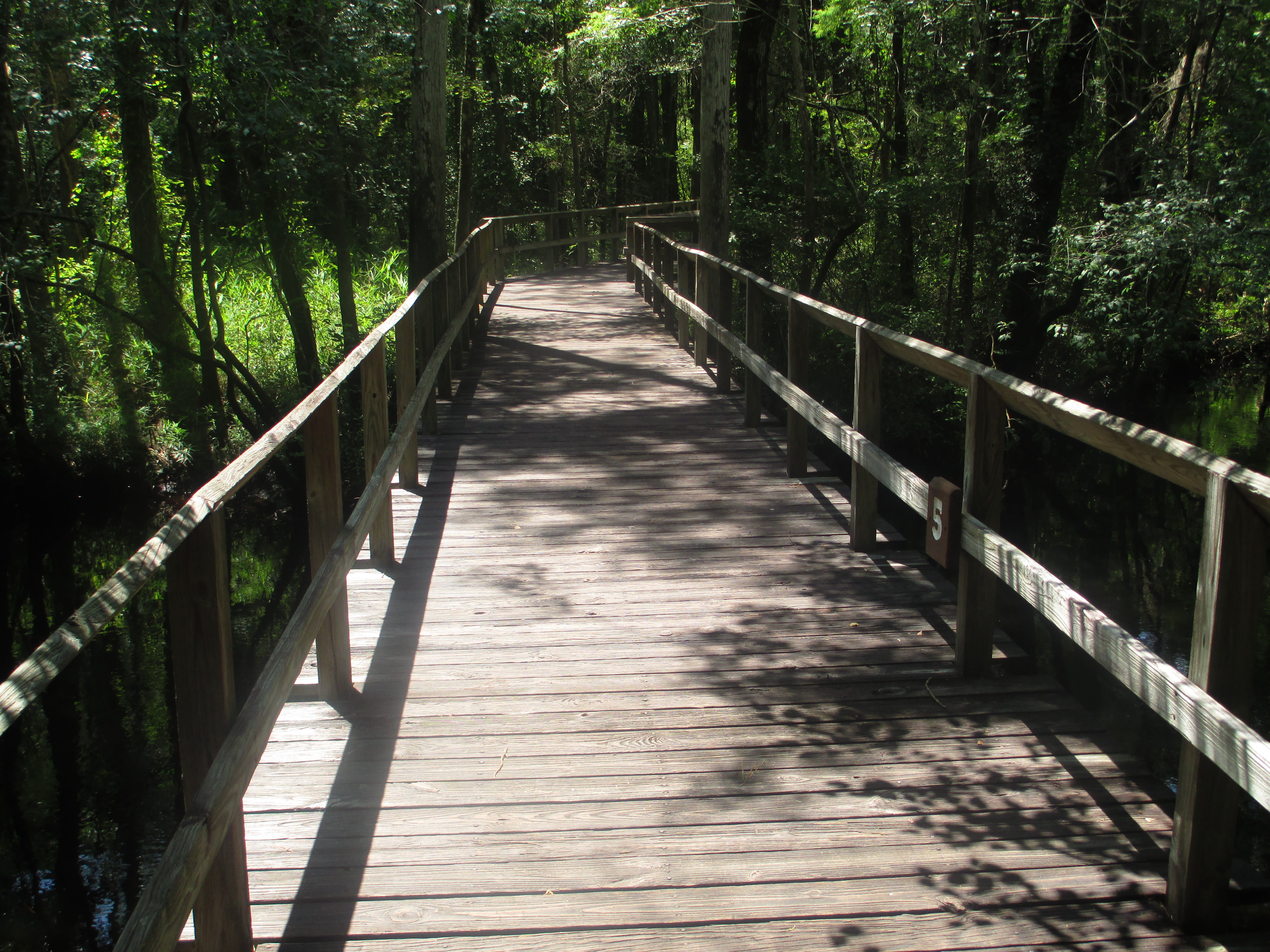 I took photo in Pender County, NC, with Canon camera.